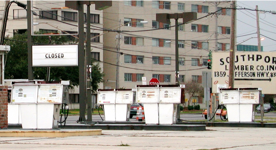 Closed gas station, December 2000 Jefferson, Louisiana. Oschener Hospital in background. Cutaway from original